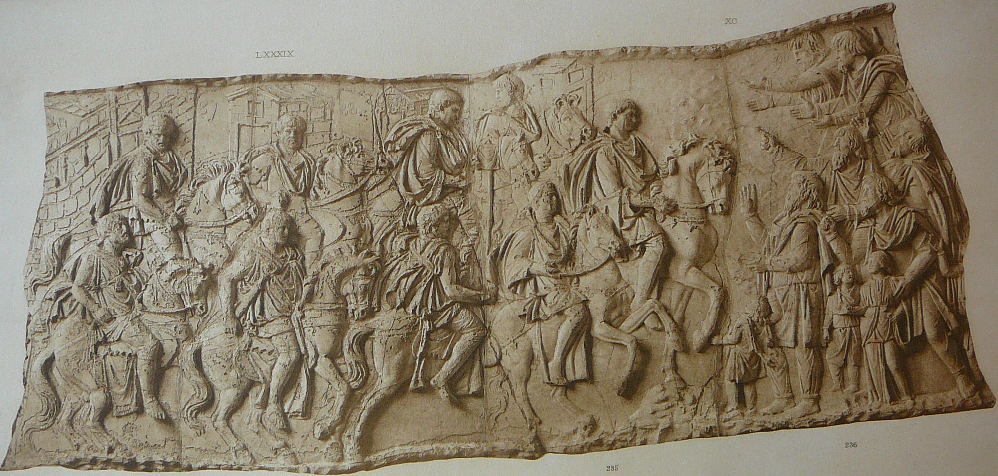 Forced march of Trajan on horseback (scene LXXXIX); Trajan is greeted by some barbarians (scene XC)